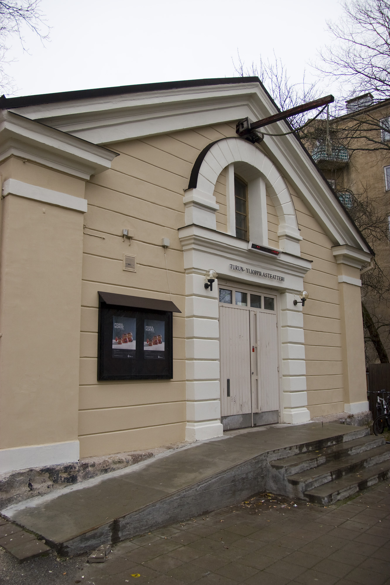 The facade of Turku Studentheater